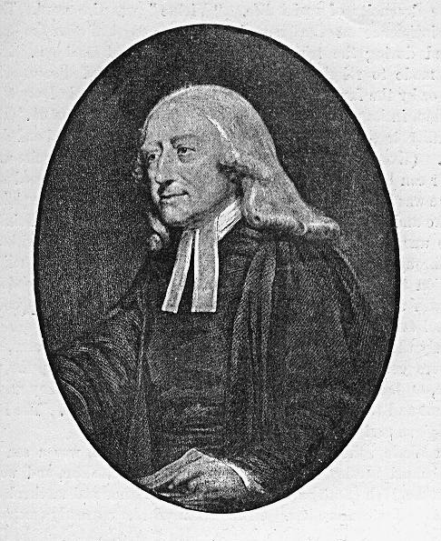 John Wesley The images in this collection are in the public domain. You do not need to ask for permission to use these images." Original source: Hundred Greatest Men, The. New York: D. Appleton & Company, 1885.